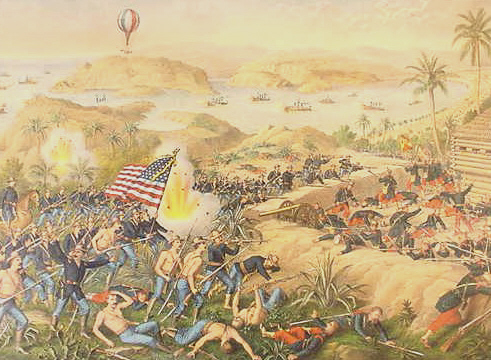 Capture of El Caney depicts the 1898 Battle of El Caney. Contemporary lithograph by Chicago printers Kurz and Allison. Found on Web. Cropped. Should be public domain as per Bridgeman Art Library v. Corel Corp.